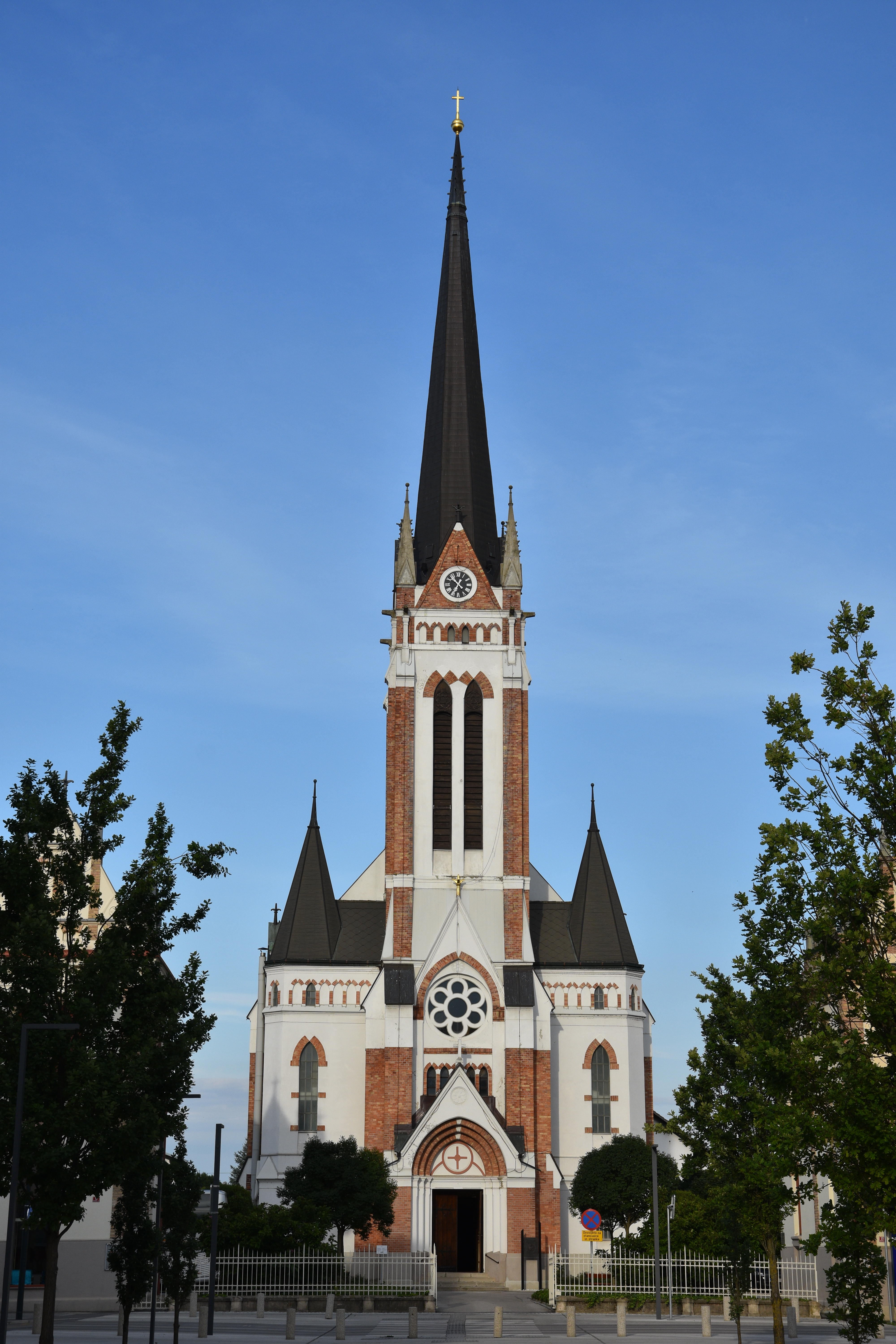 Murska Sobota Lutheran Church